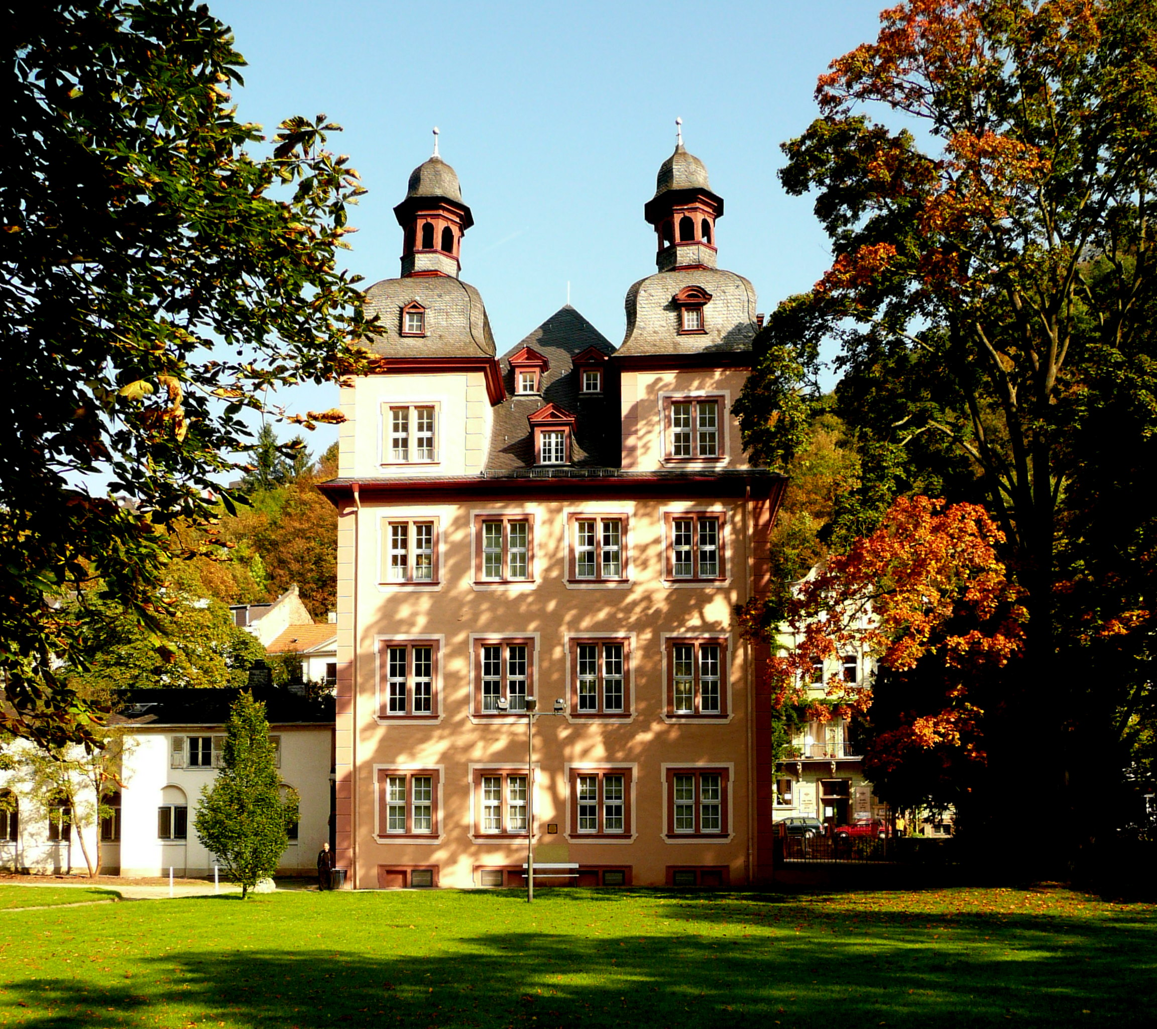 Karlsburg , called Vier Tuerme in Bad Ems: built 1696, finished 1809/10; architect Johann Christoph Sebastiani (?)